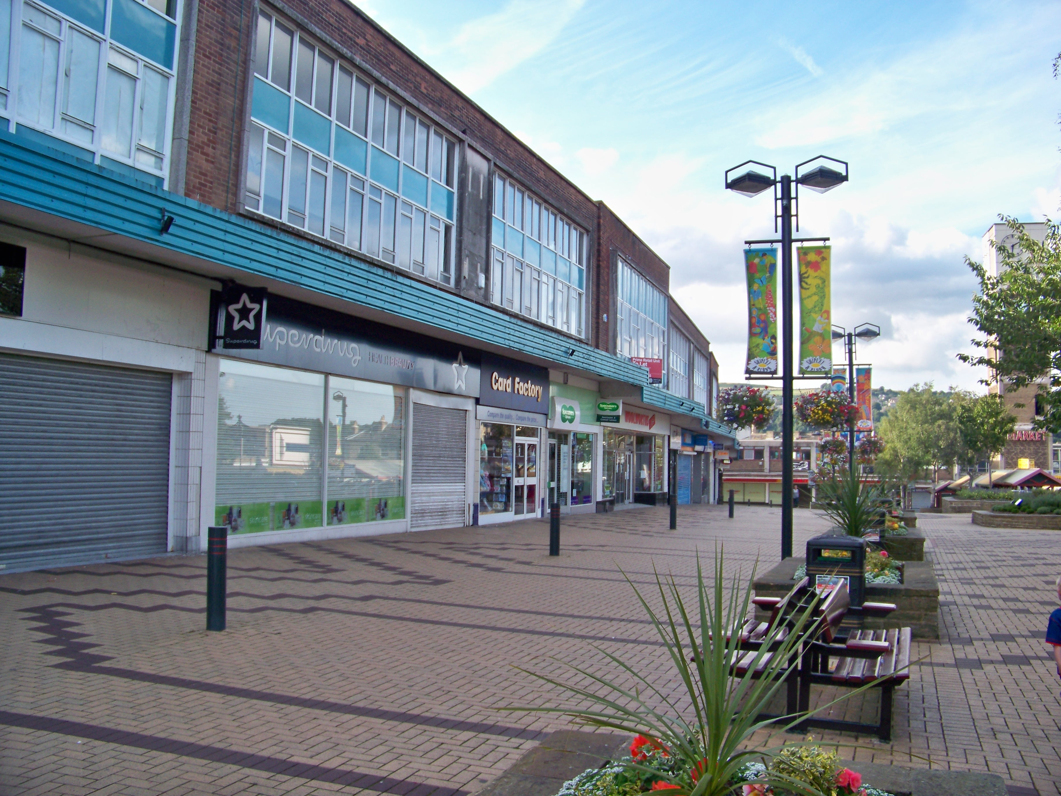 Market Place, Shipley, Bradford, West Yorkshire, England. Taken on the Evening of Wednesday 5th August 2009.